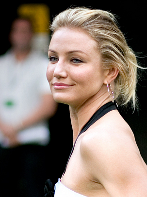 Cameron Diaz at the Shrek the Third London premiere